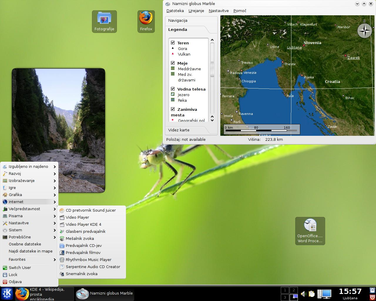 KDE 4.0.0 desktop, translated to Slovene, with some plasmoids